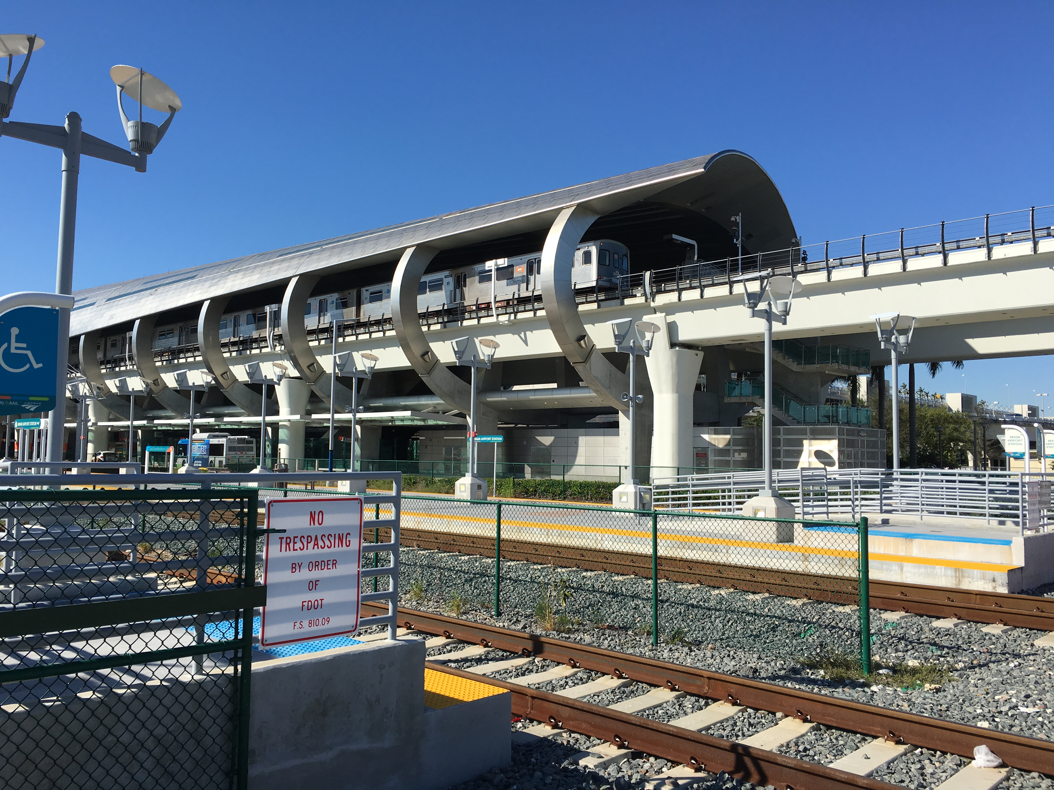 Miami Airport Station